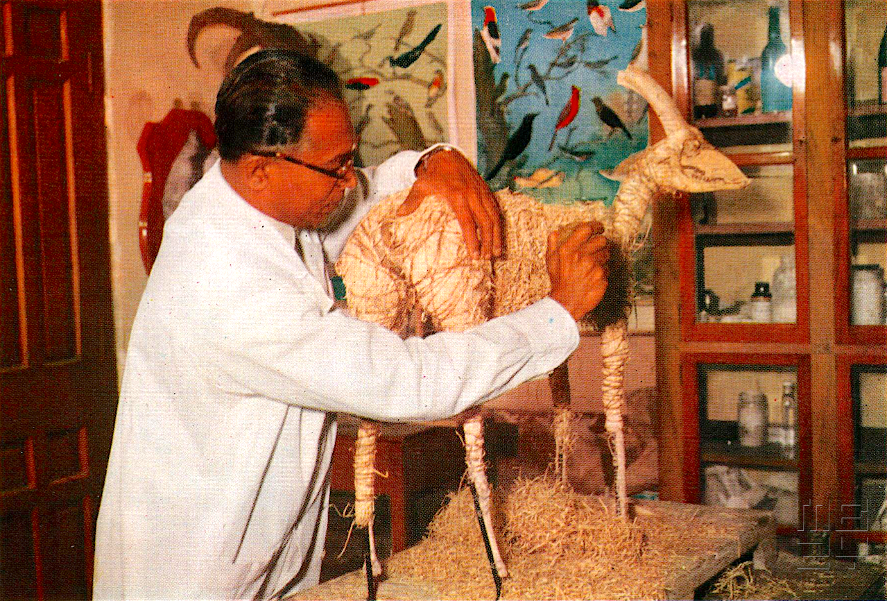 Taxidermy of a wild Iraqi goat, Natural History Museum, Baghdad, 1954